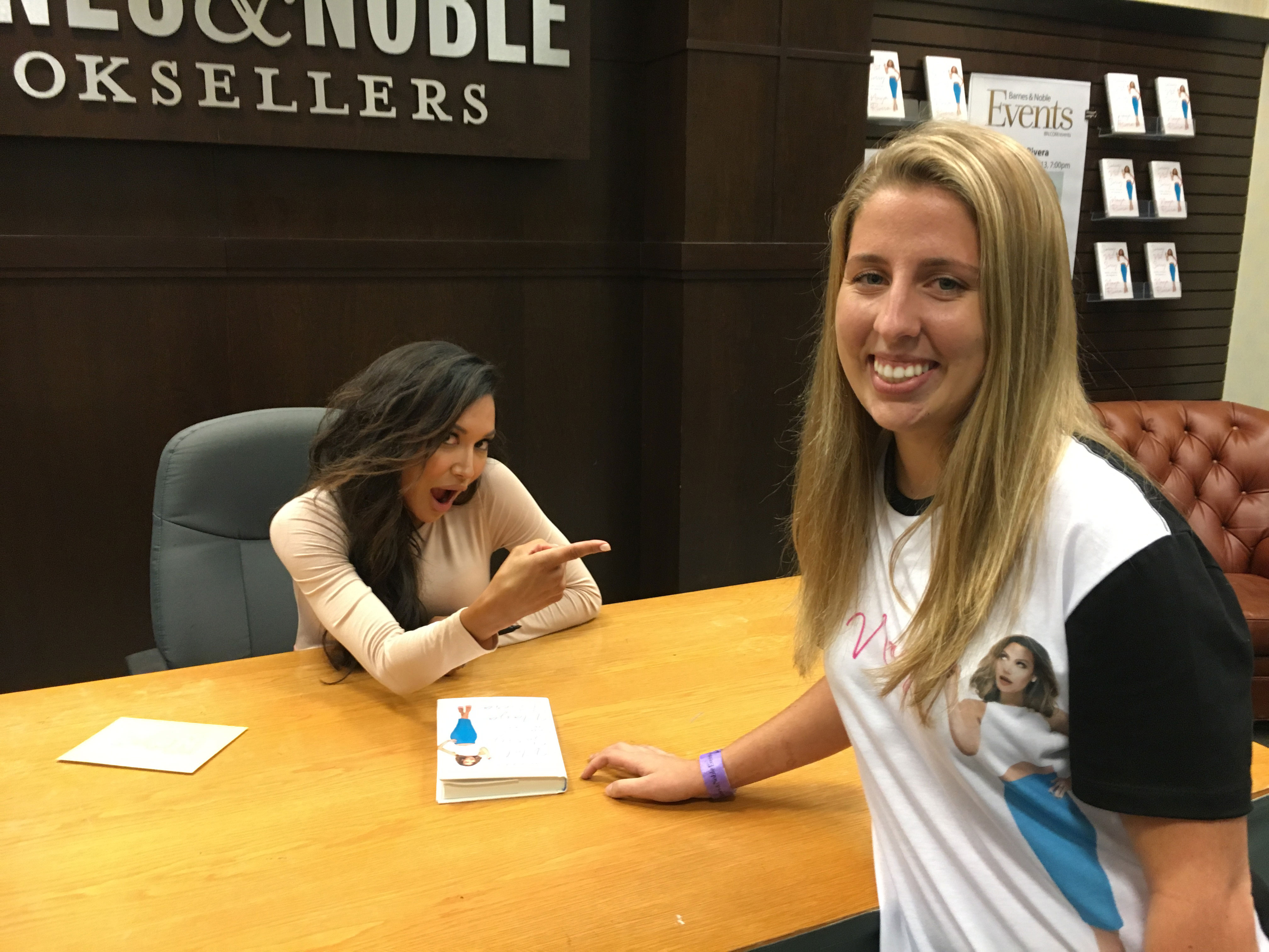 Naya Rivera poses for a picture with a fan just after signing a copy of her new memoir "Sorry Not Sorry" at The Grove in Los Angeles.